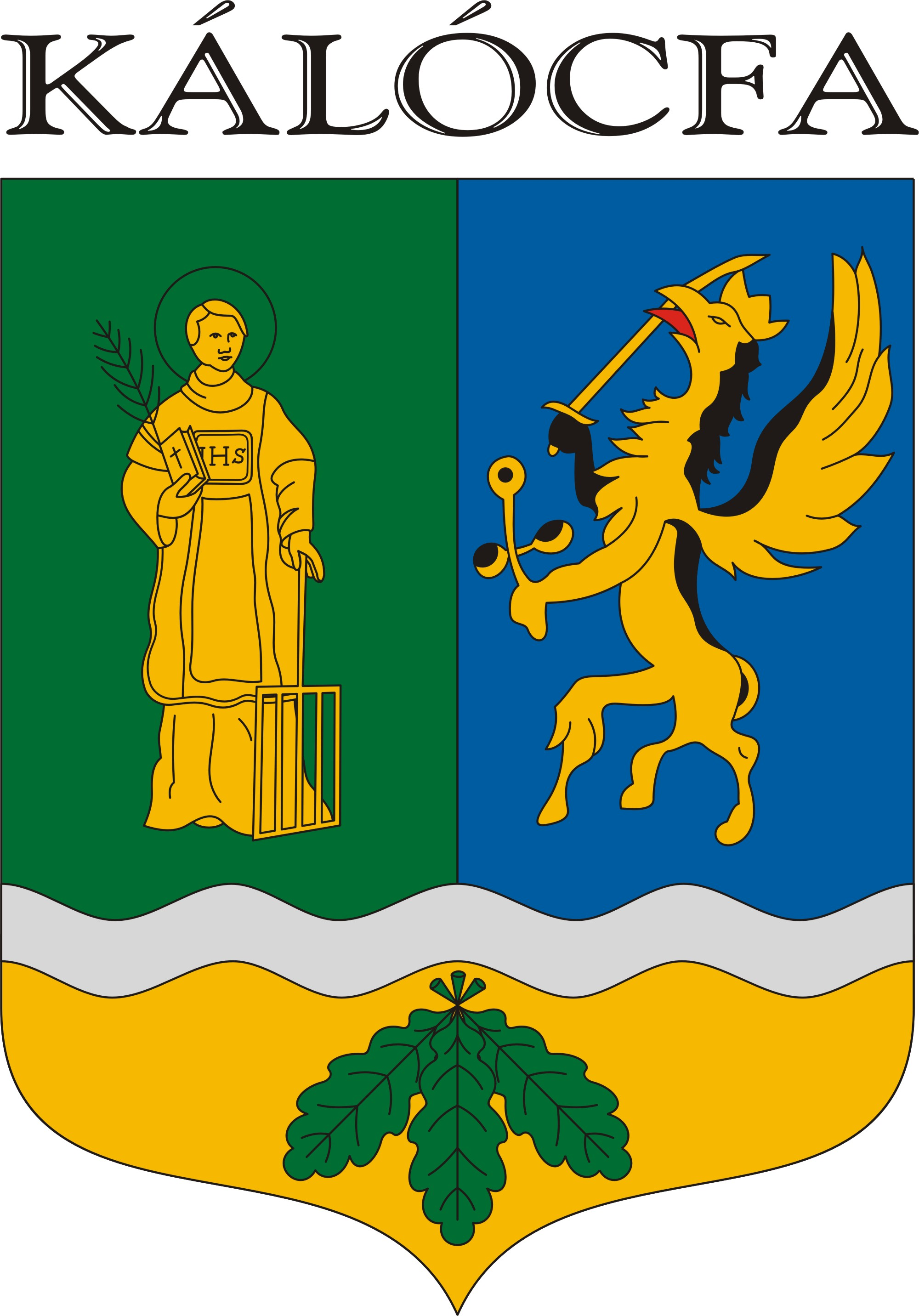 Coat of arms of Kálócfa, Hungary